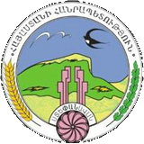 Coat of Arms of Armenian City of Stepanavan